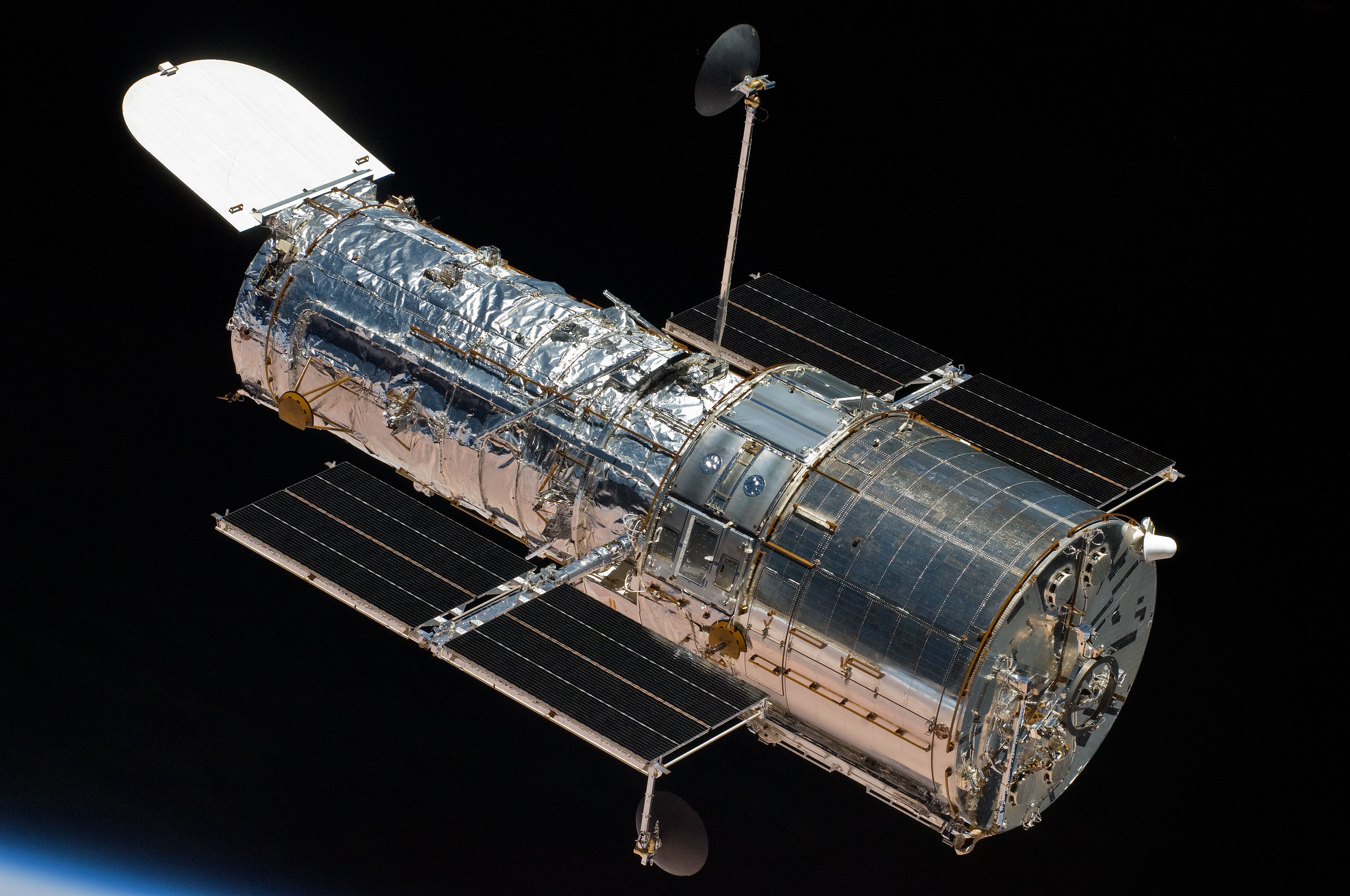 An STS-125 crewmember aboard the Space Shuttle Atlantis captured this still image of the Hubble Space Telescope as the two spacecraft continued their relative separation on May 19, 2009, after having been linked together for the better part of a week. During the week, five spacewalks were performed to complete the final servicing mission for the orbital observatory. The crew deployed the giant telescope at 7:57 a.m. (CDT).